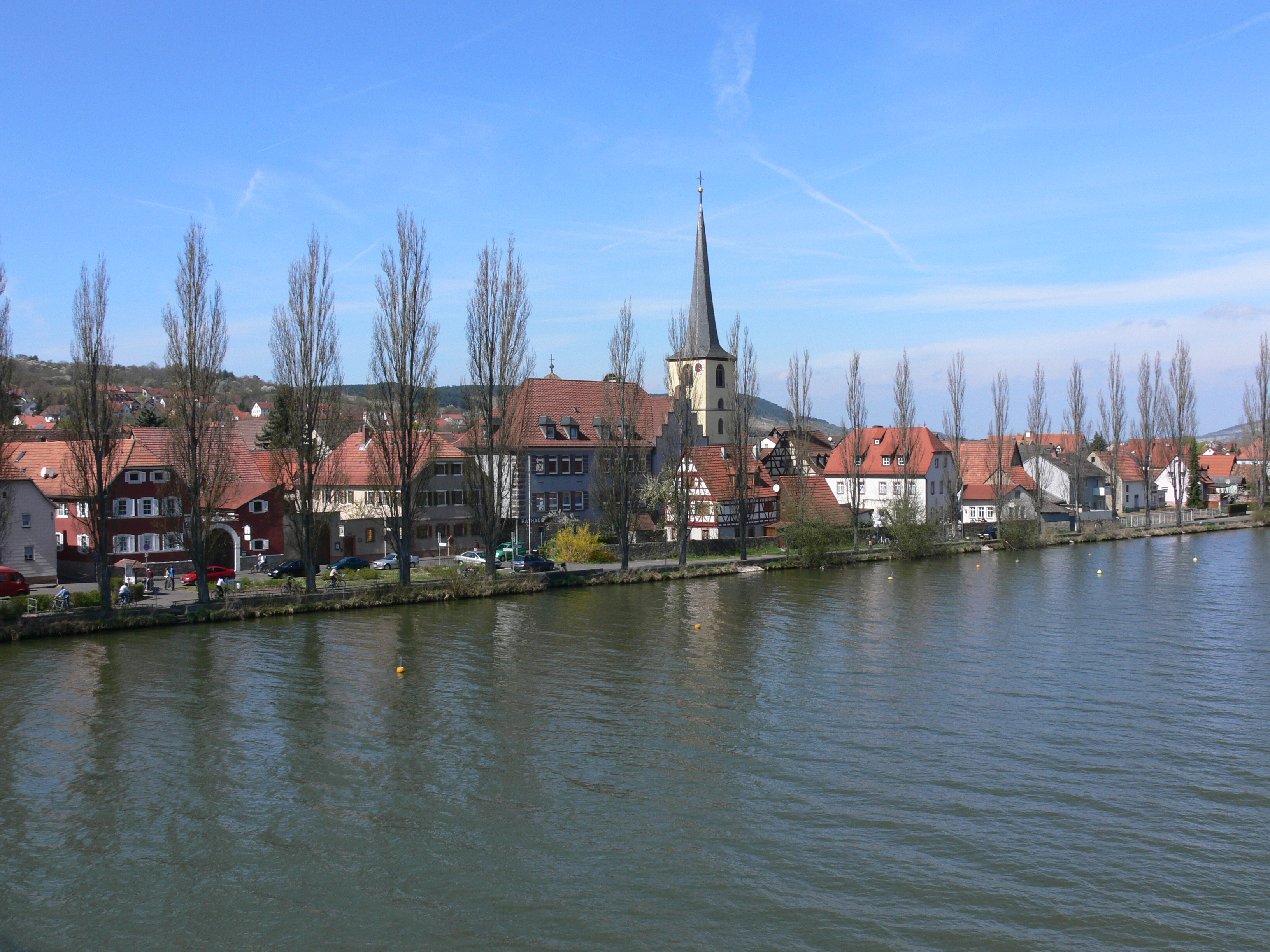 Riverside view of Margetshoechheim